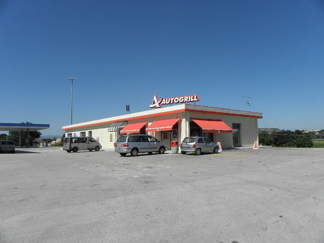 State road 17